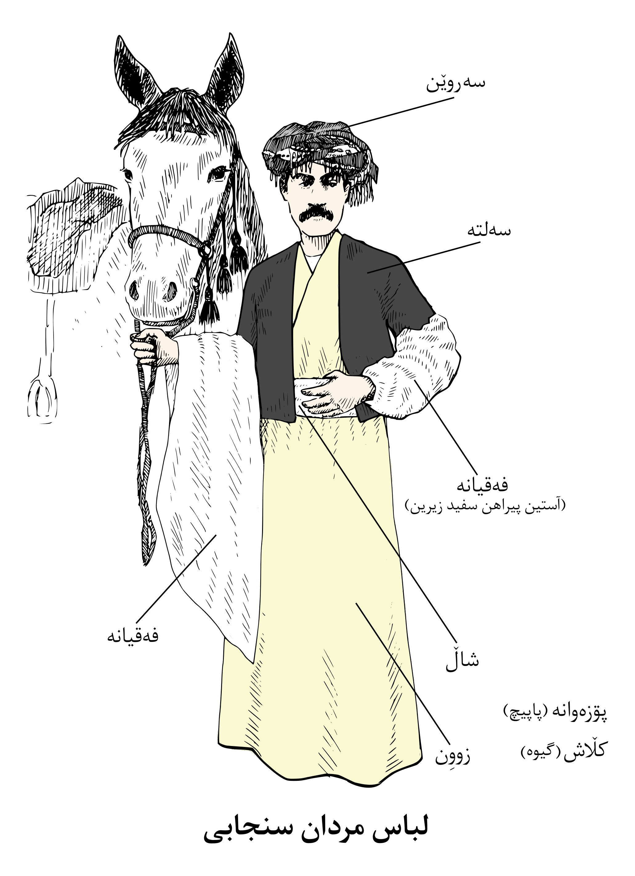 The clothes of Sanjabi men. The words is common among Siminavand people.